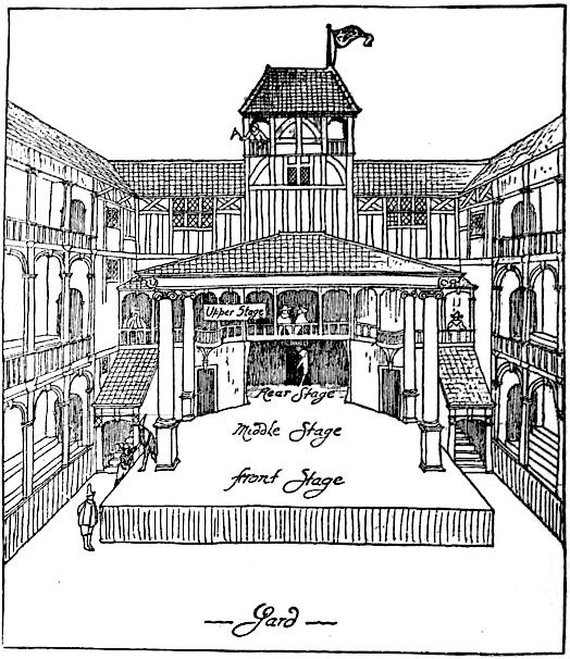 Fig. 5 - The Fortune Theatre; Restoration of Walter H. Godfrey.